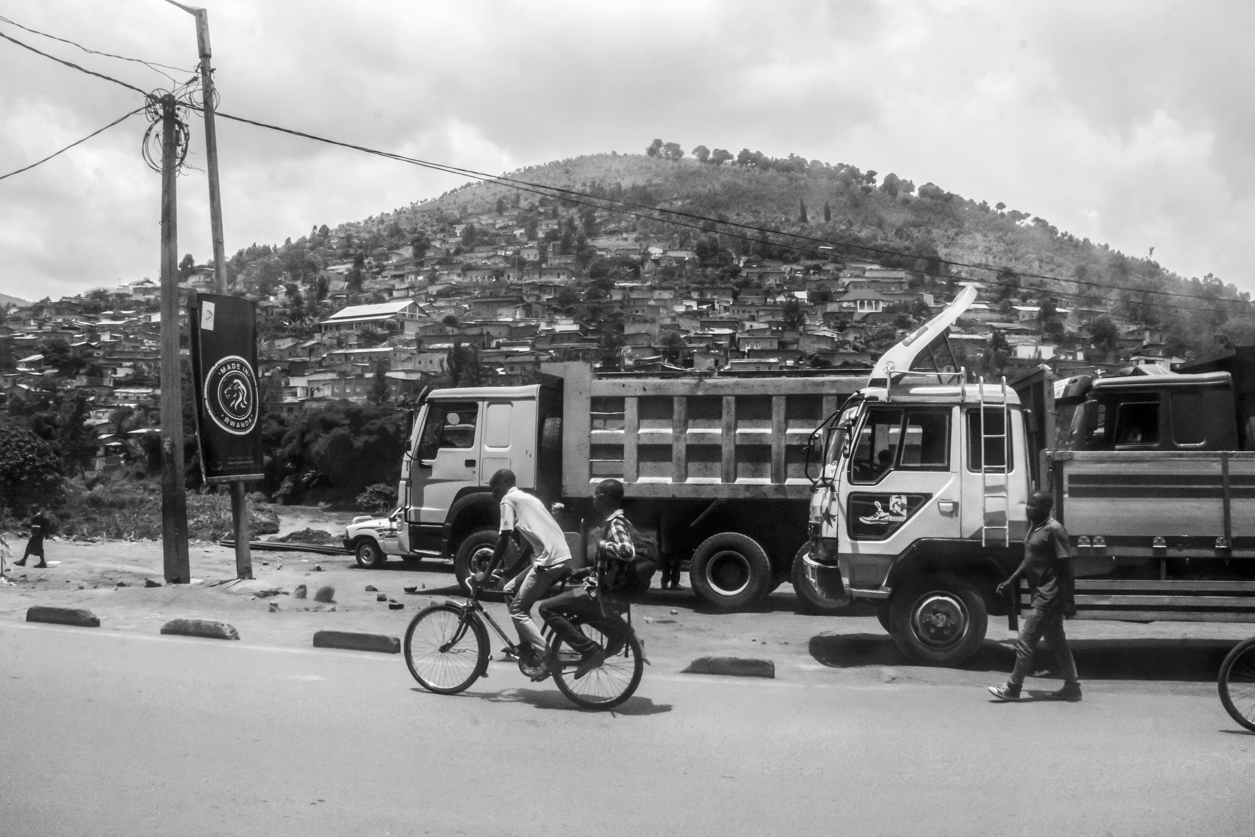 This is an image with the theme "Africa on the Move or Transport" from: Rwanda